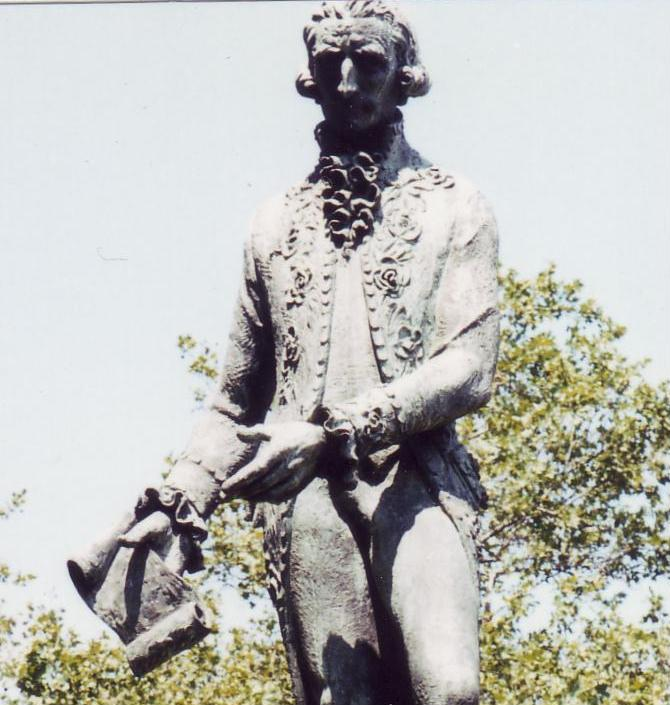 I took this photograph myself in 2003. It is of a statue of Diego de Gardoqui by Luis Sanguino, in Philadelphia, Pennsylvania.